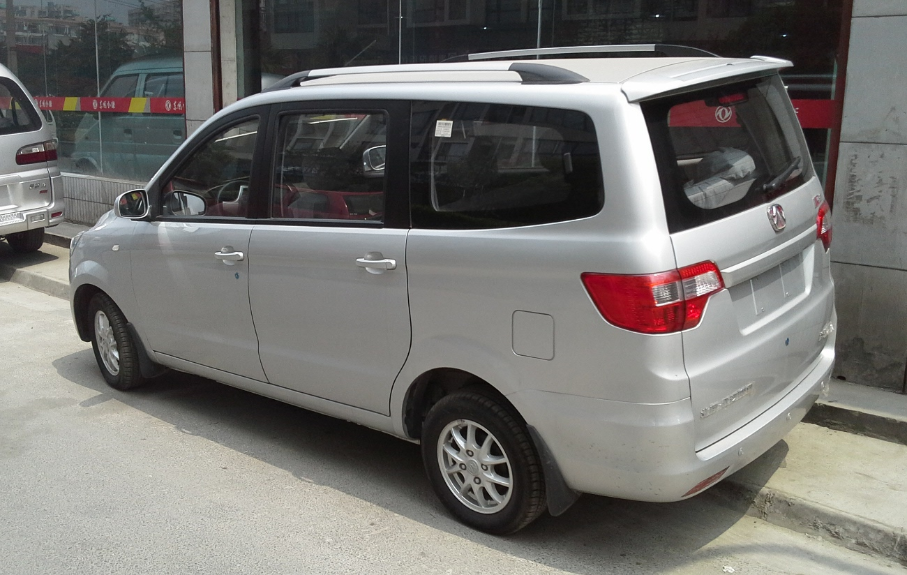 Weiwang M20 photographed in Chengdu, Sichuan province, China.